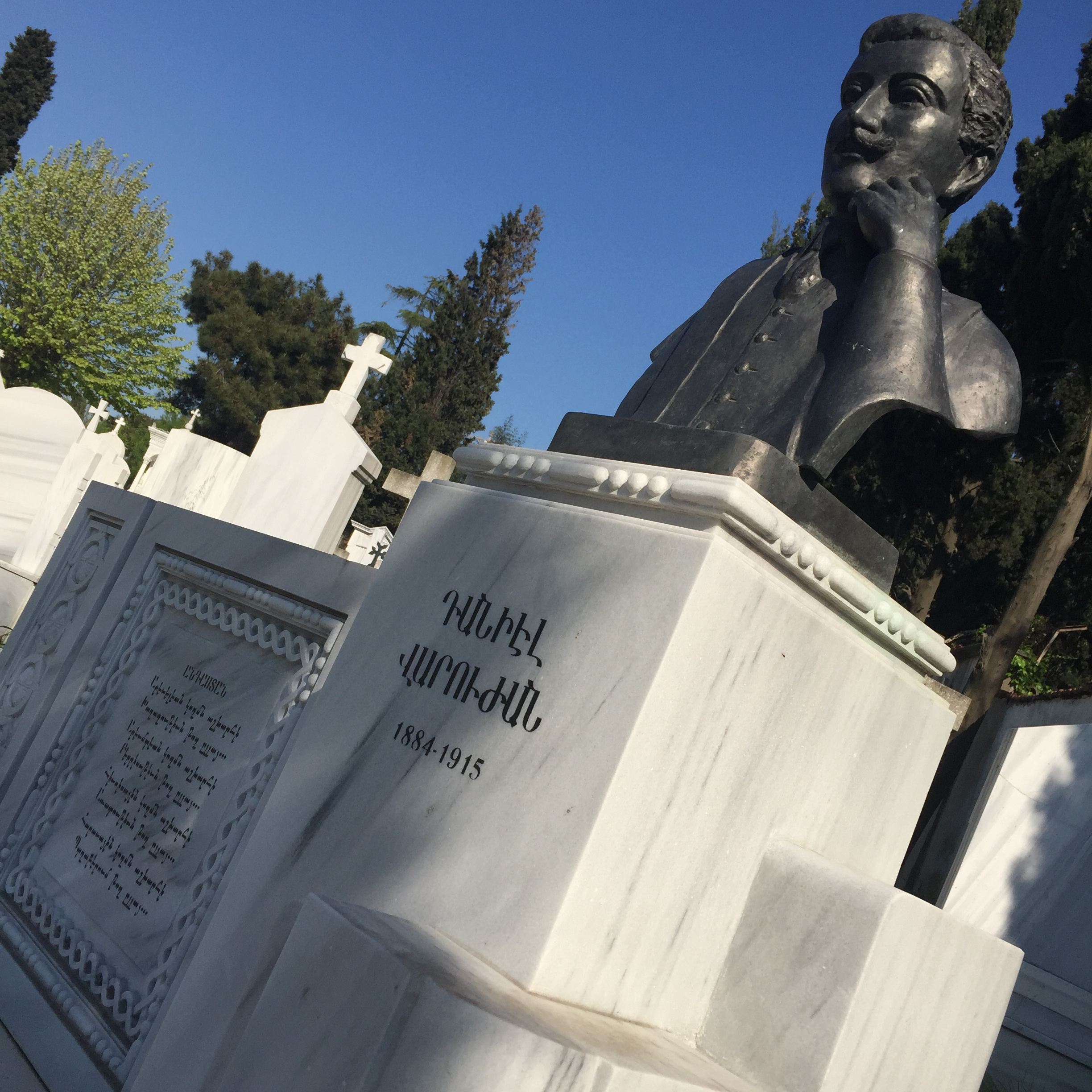 Daniel Varoujan memorial at the Şişli Armenian Cemetery in Istanbul (Photo: Rupen Janbazian)